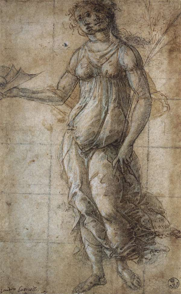 BOTTICELLI, Sandro Pallas Pen and bistre over black chalkon a pink ground, 220 x 140 mm Galleria degli Uffizi, Florence